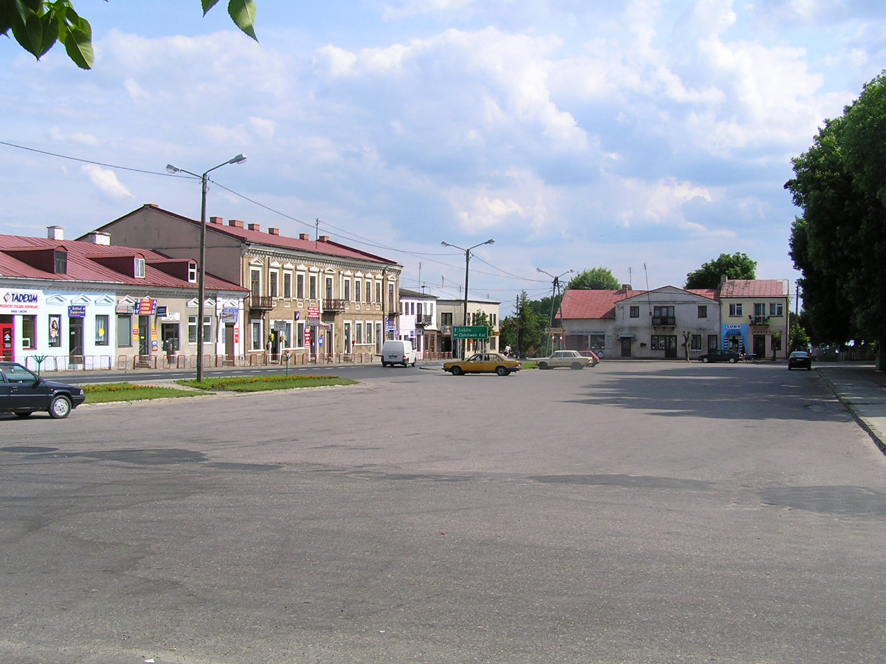 autor: Yarek shalom 13:41, 23 October 2006 (UTC)yarek shalom